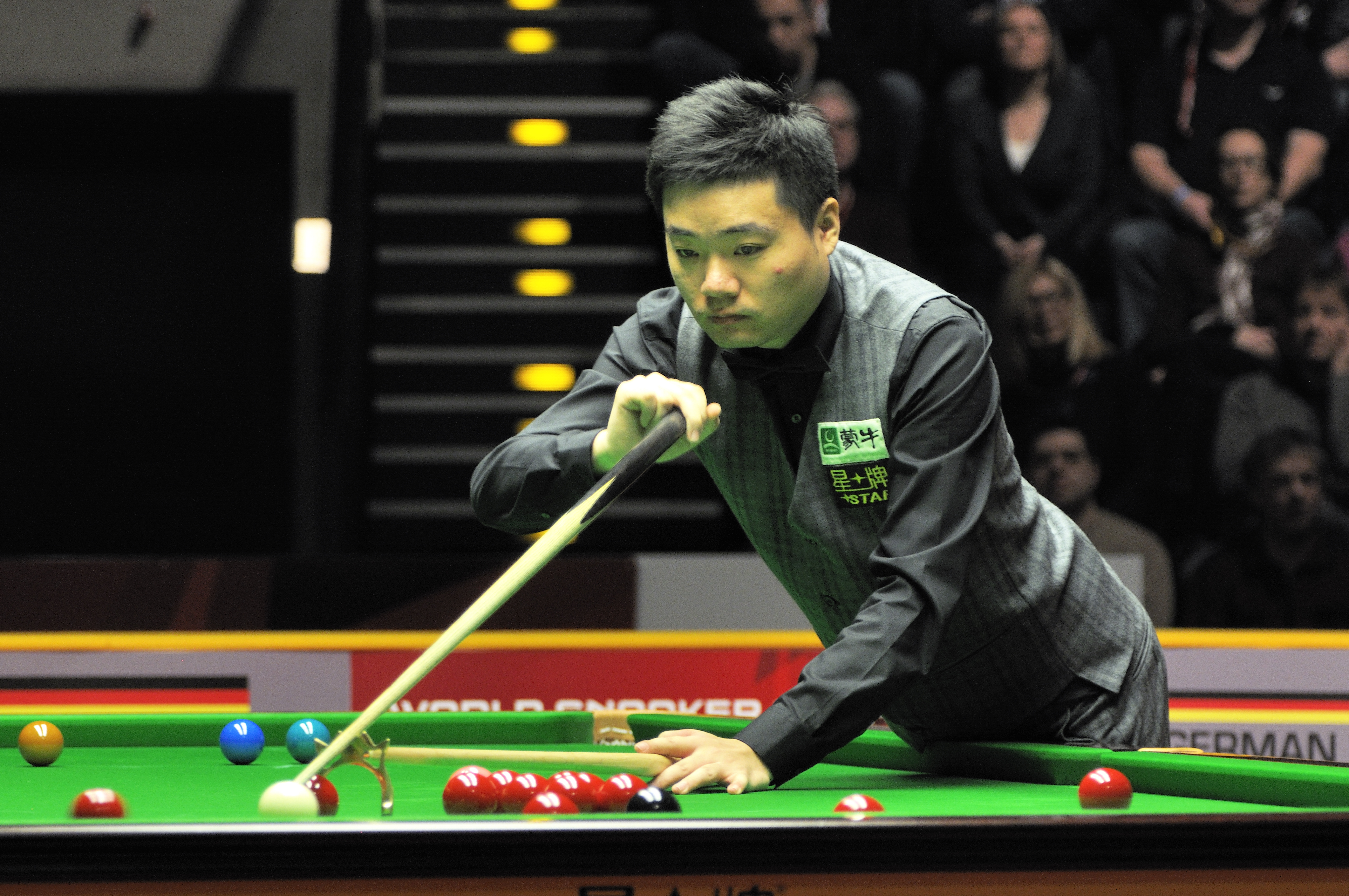 Picture taken in Berlin during the Snooker German Masters in 2014. Ding Junhui.